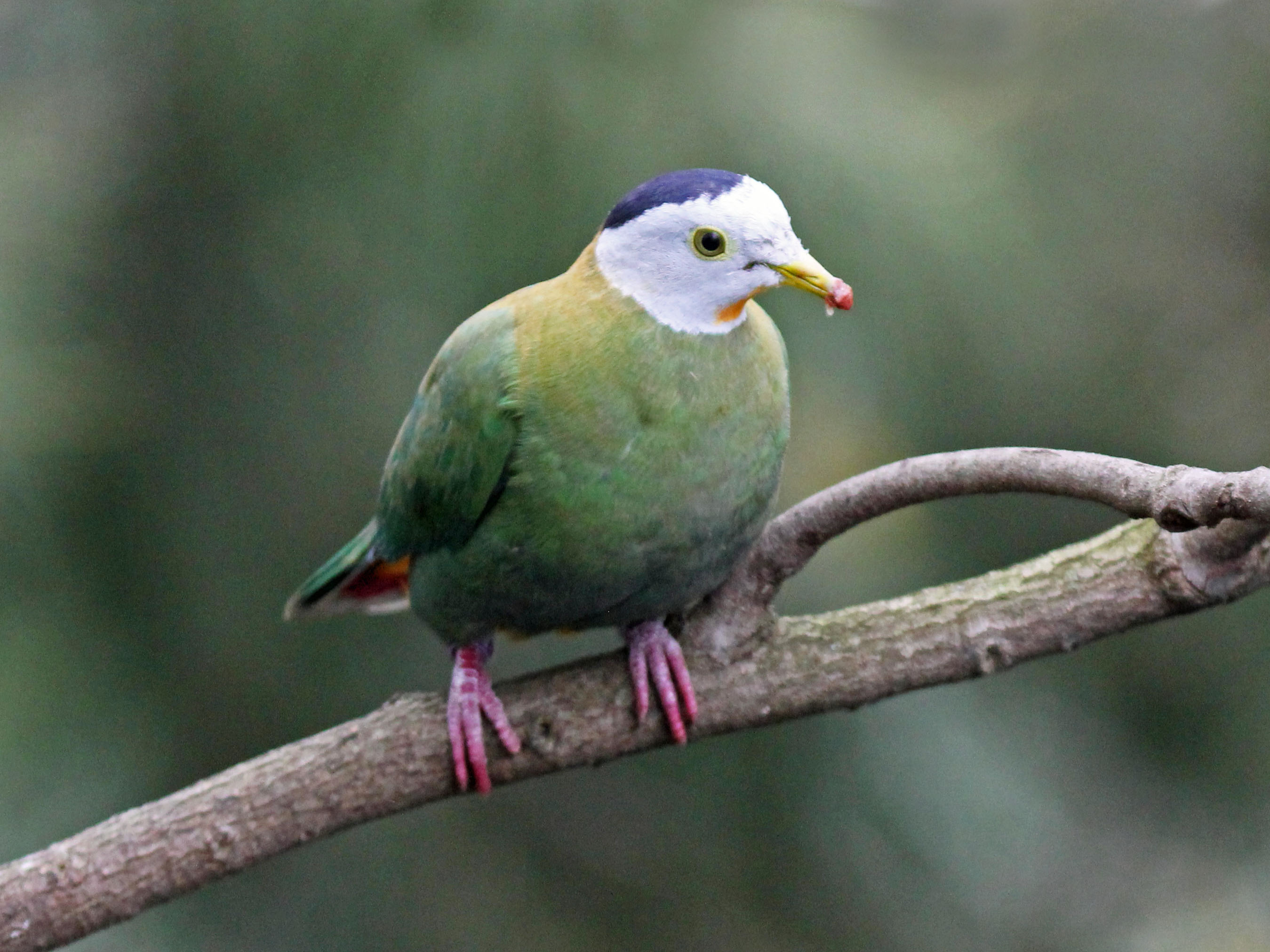 Male Black-naped Fruit Dove (Ptilinopus melanospilus) - San Diego Zoo